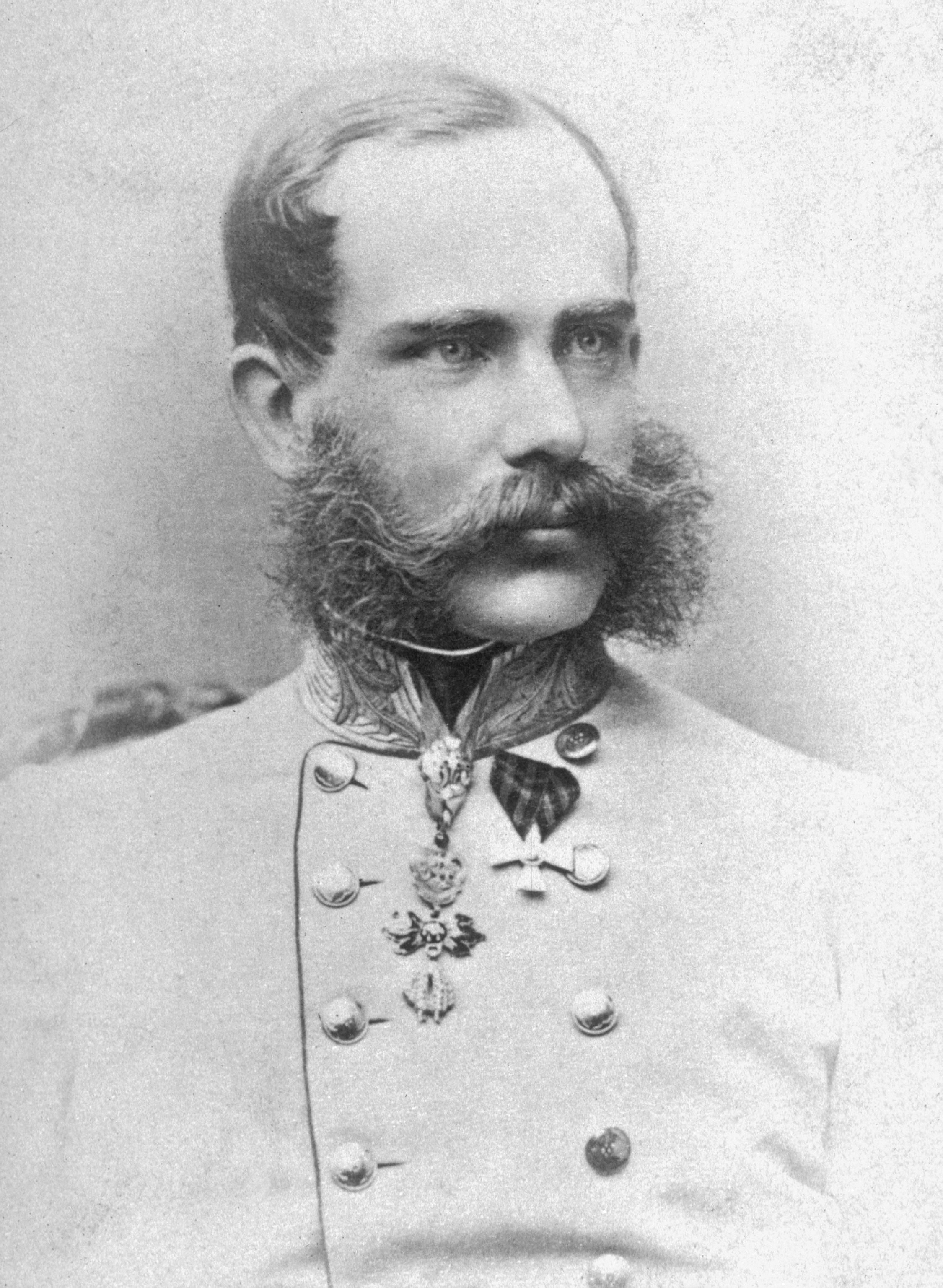 Emperor Franz Joseph I of Austria-Hungary at age 35, 1865.